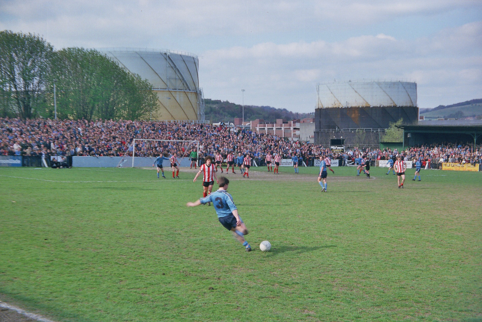 Loakes Park hosts the FA Trophy semi-final second leg match v Altrincham 17/04/1982